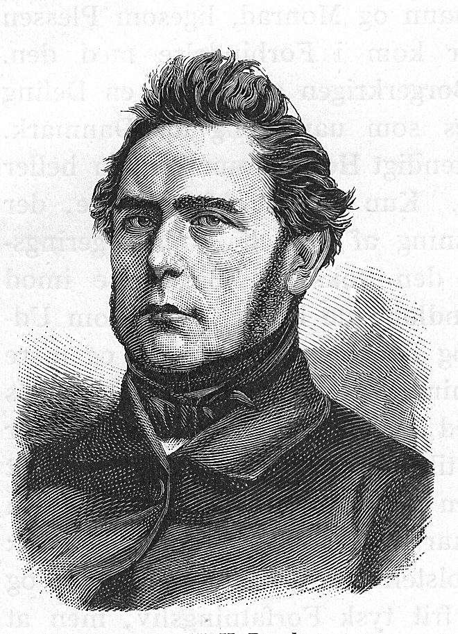 Wilhelm Beseler. Politican and jurist from Schleswig-Holstein.